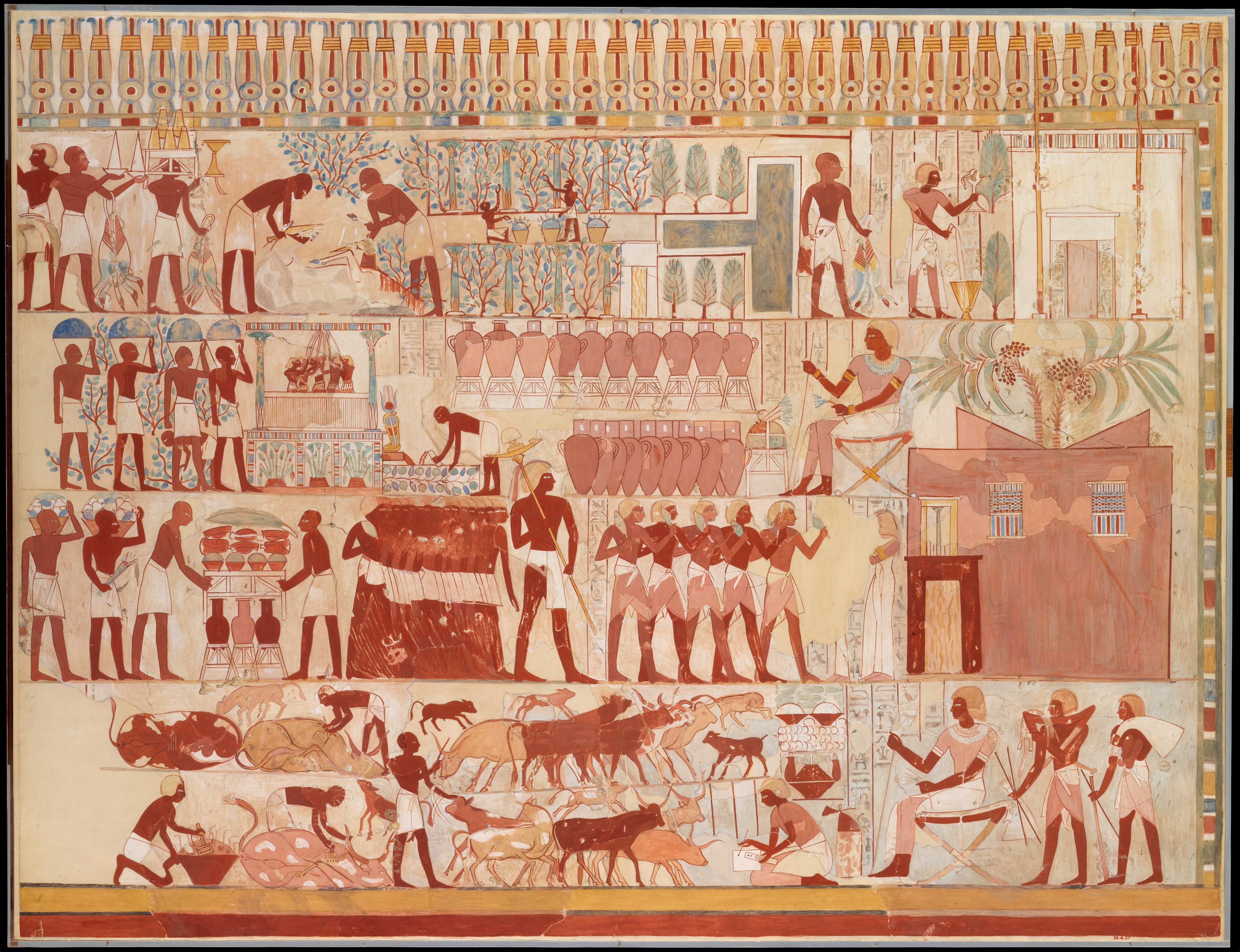 Facsimile, Nebamun (TT 90), estate activities